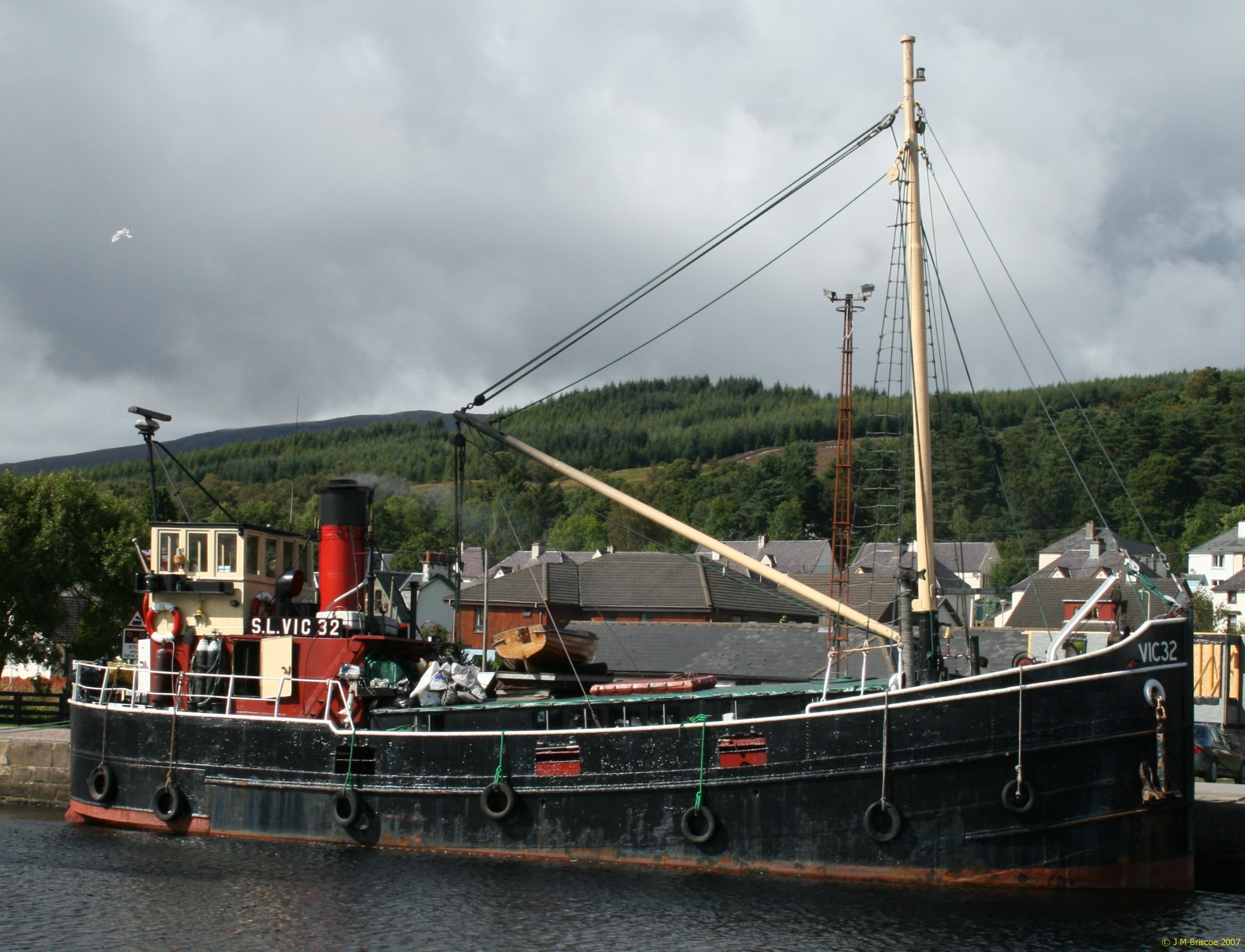 Steam Lighter VIC32, a Clyde puffer, moored in Corpach basin National Register of Historic Vessels Puffer Preservation Trust